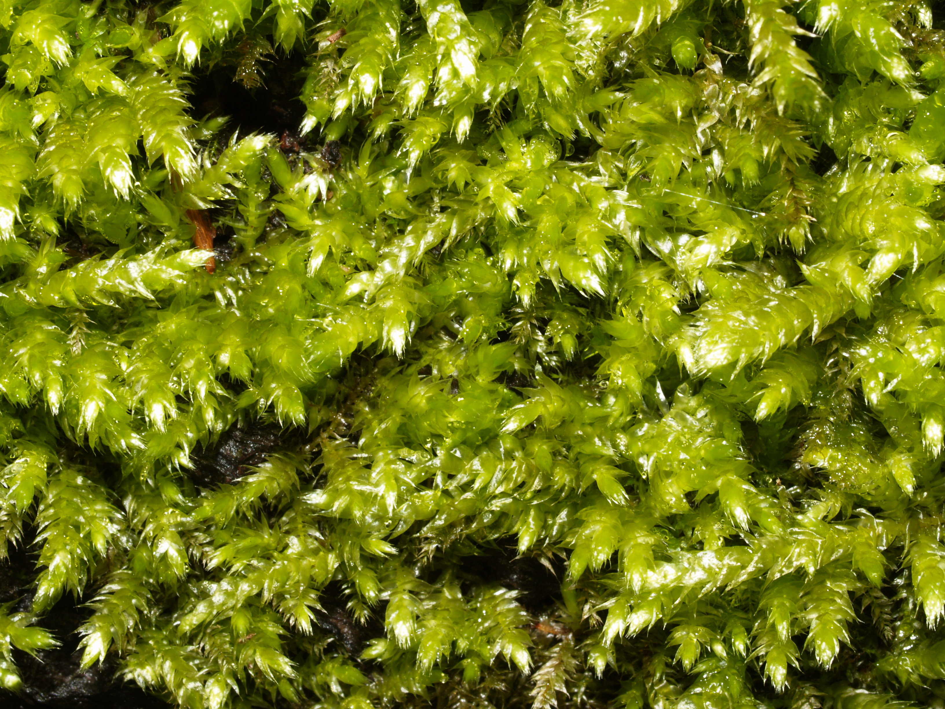 Moss on a piece of old wood, detail